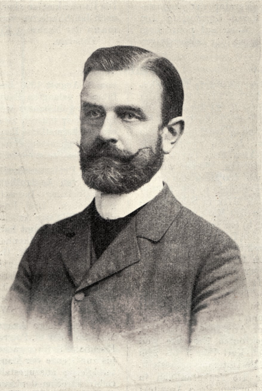 Ludwig von Tiedemann, German architect (1841-1908)